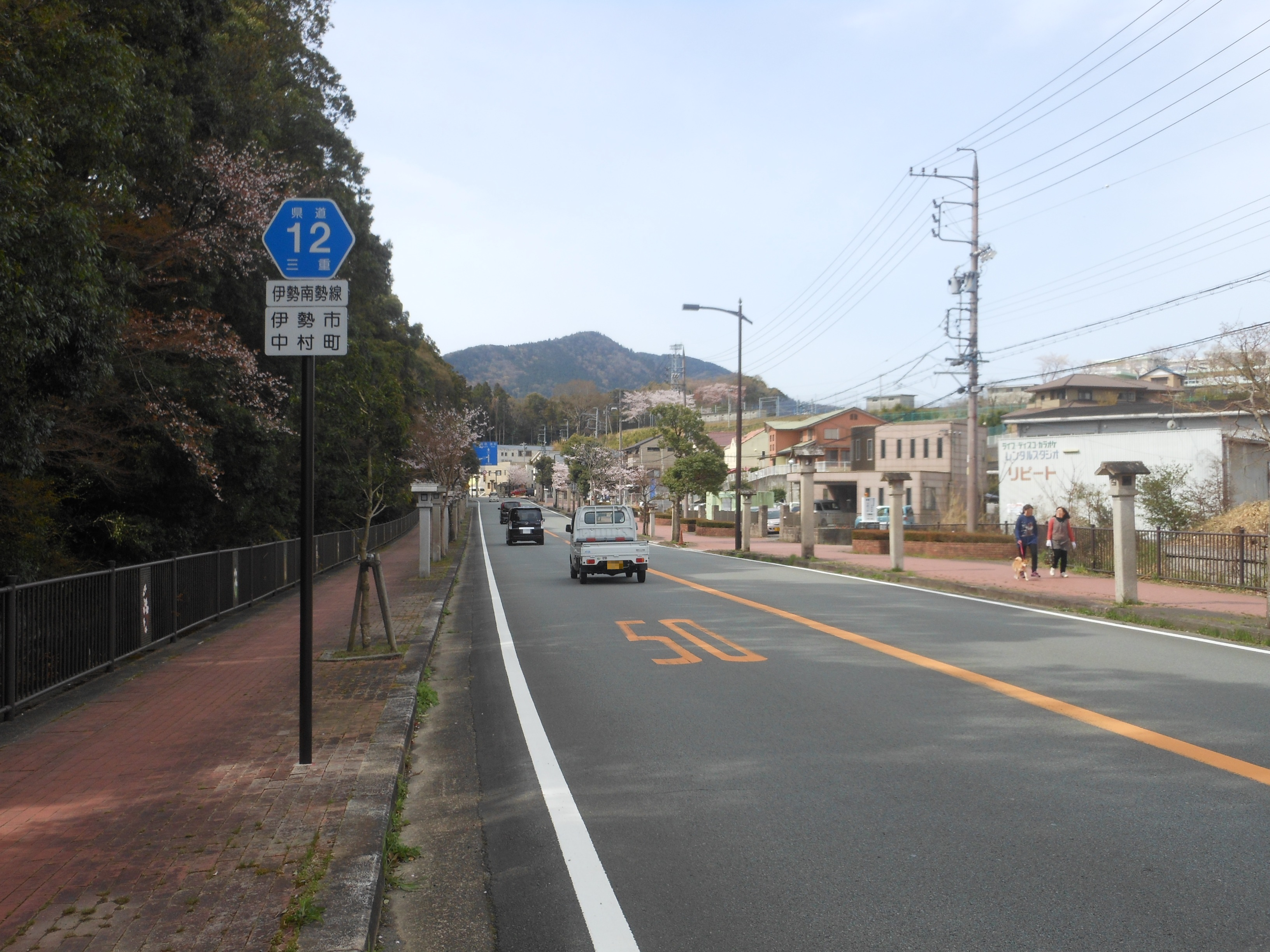 The Mie prefectural Road Route 12 (Ise Nansei Line) in Nakamuracho, Ise City